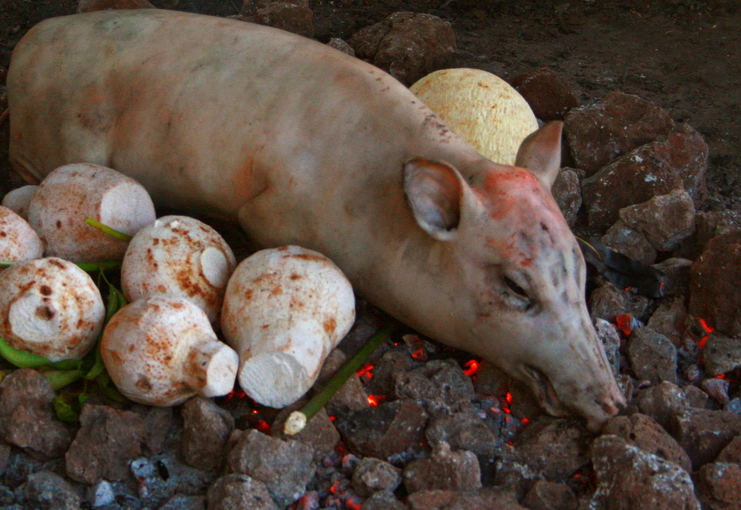 Pig on the umu. Umu is the Samoan oven which is a fire with lava rocks, and food is put on to it to cook it. The food is then covered with banana leaves and it takes about an hour to cook a pig this size. Also in this Umu, is taro and breadfruit. We also cooked lobster and Palusami for this feast